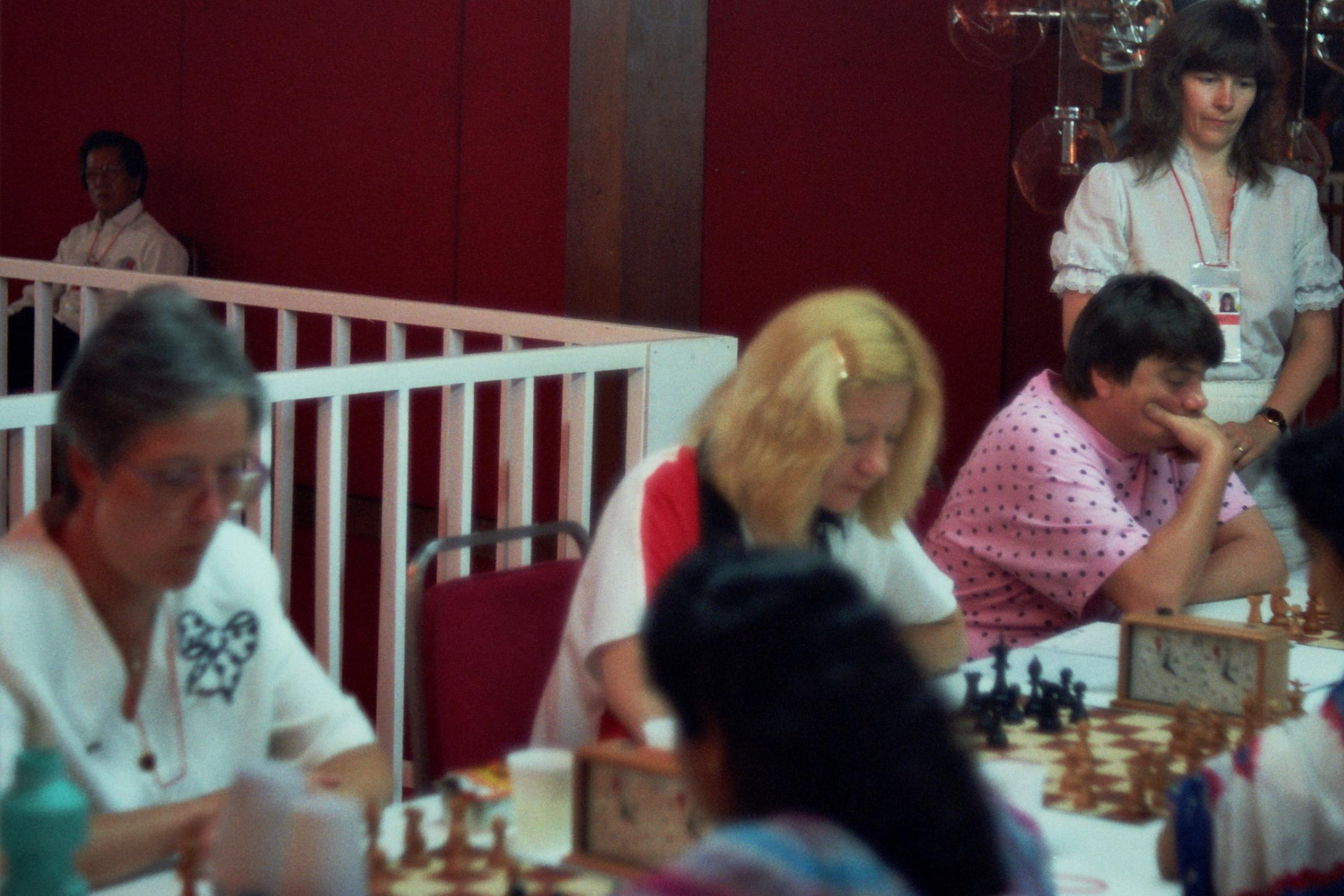 The Swiss ladys (Corinne Schneider, Claude Baumann, Tatjana Lematschko and Barbara Hund), Chess Olympiad 1992, Photographer Gerhard Hund.